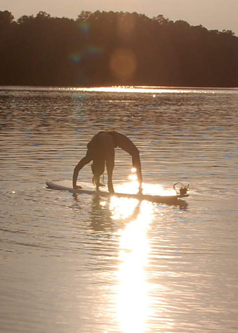 Every once in a while, a new sport is born. Not all have what it takes to win us over, gain in popularity and stick around. Stand up paddle boarding (SUP) has got that something special and is here to stay! The verdict is in and turns out that Americans love SUP! Who is everyone? Over 2.8 million Americans SUP’d in 2014 according to the Outdoor Foundation. It is the fastest growing sport in the world with more first-time participants than any other sport. Those are some impressive statistics, but not in the least bit surprising…SUP is awesome and there is a reason (or a few) why everyone Inflatable paddle boards, young and old, are getting on board with the newest water sport: SUP is a great workout burning 350 calories per hour for casual paddling and a reputation for working your core! It is accessible to all ages, making it a fun family activity. There is always room for advancement in your SUP career; there are diverse activities (e.g. SUP yoga) and a range of challenges (e.g. riding different breaks, competing or different types of boards) to work towards. SUP means quality time with you, the water and nature! It has low initial costs compared to other water activities such as boating and water skiing. SUP will broaden your horizons while exploring new locations and bodies of water both nearby and far away…tropical vacation anyone? While a new sport always has a certain glimmer to it, it’s the accessibility and diversity of SUP that lands it a permanent position on our roster!